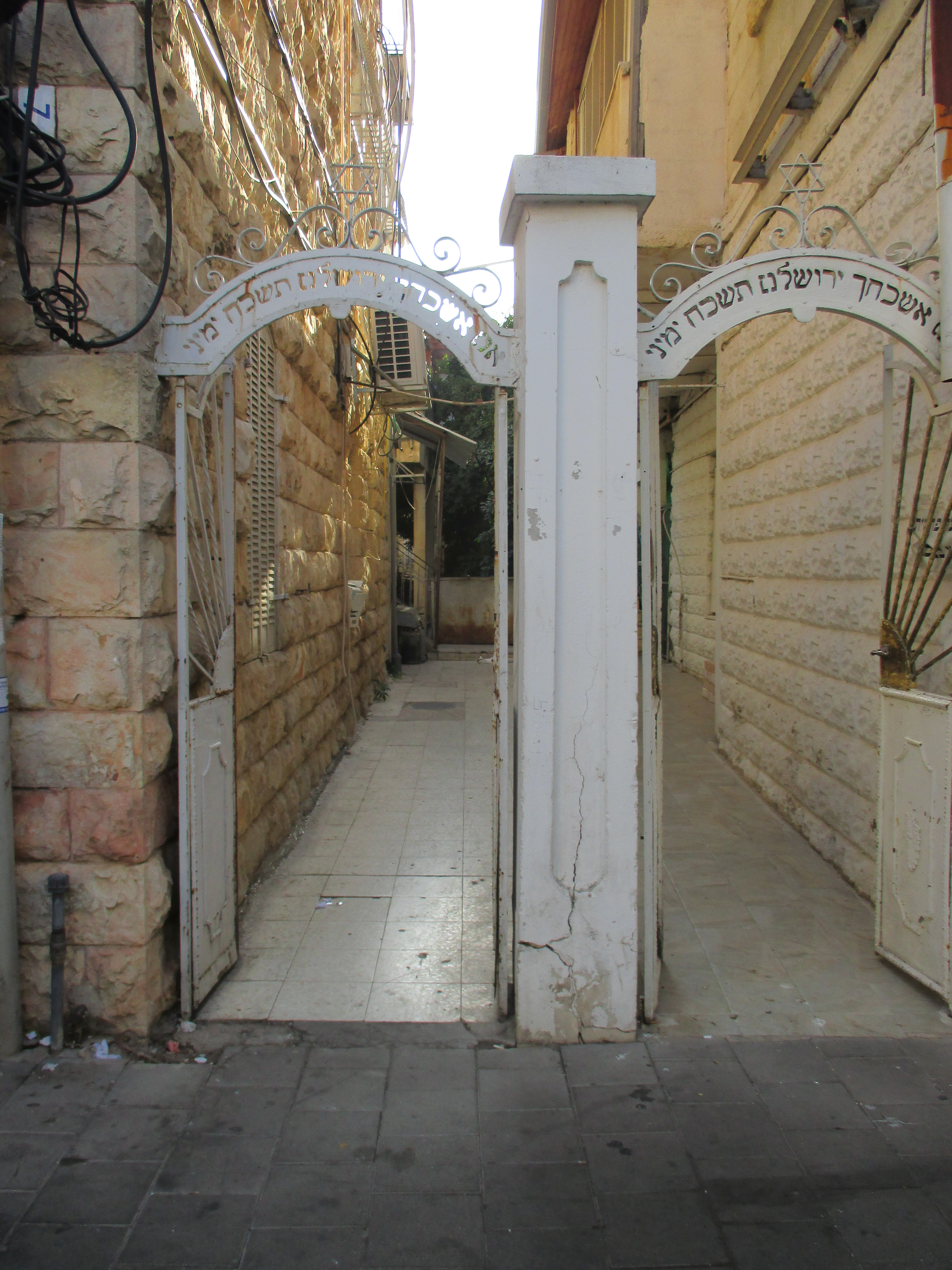 Jerusalem, Zichron Moshe, Ya'akov Meir st